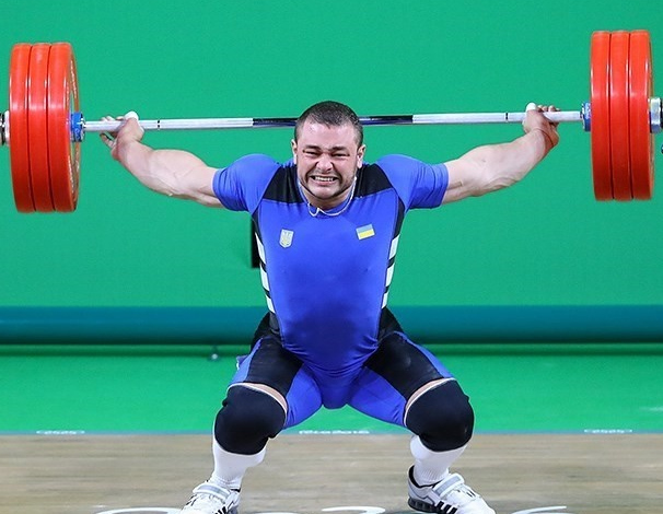 Dmytro Chumak at the Rio Olympics